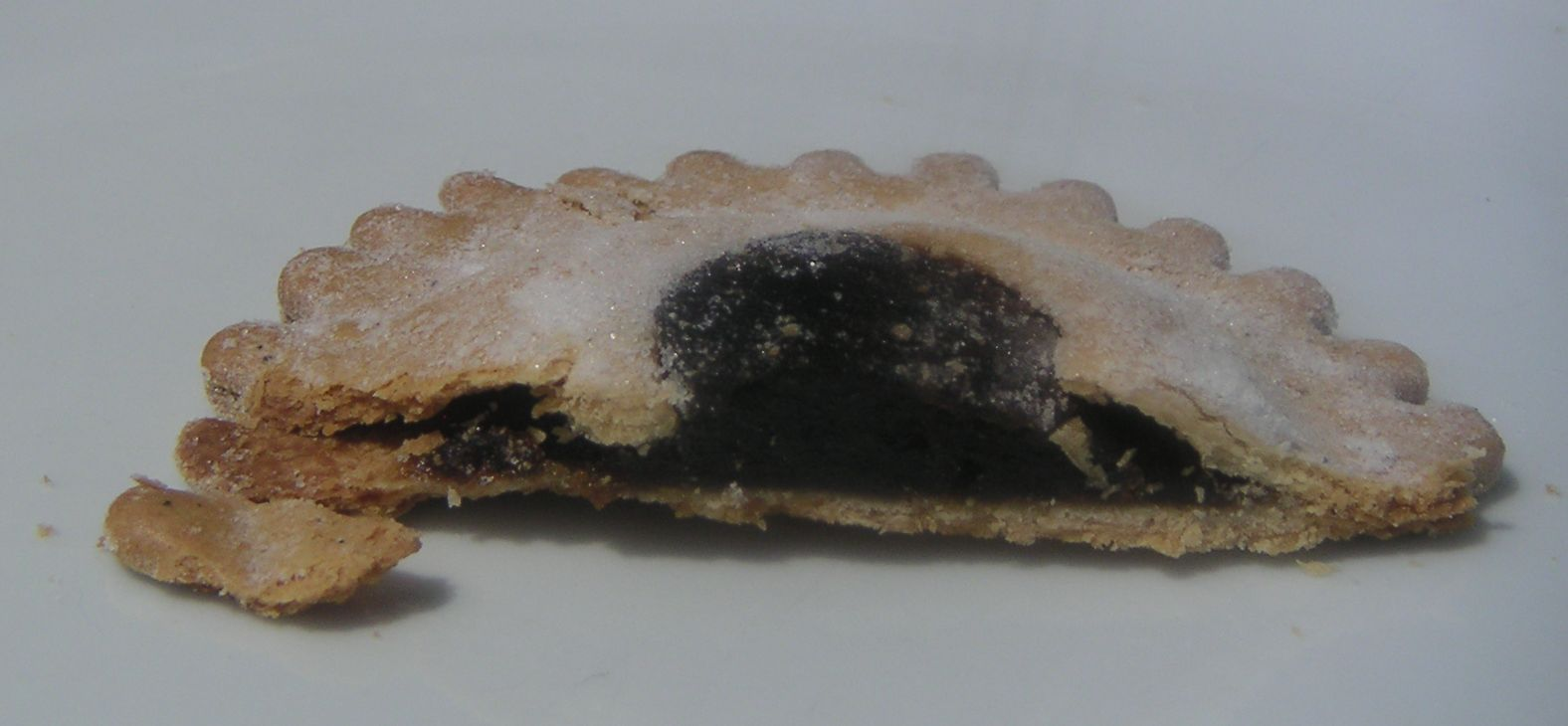 A half of a Minorquian 'crespell', where we can see that it is made with two rond sheet of pastry. Inside we can put 'recuit' flavoured with sugar and lemon, or confiture - usually fig or, as in this case, quince jelly. It is couvered by icing sugar.